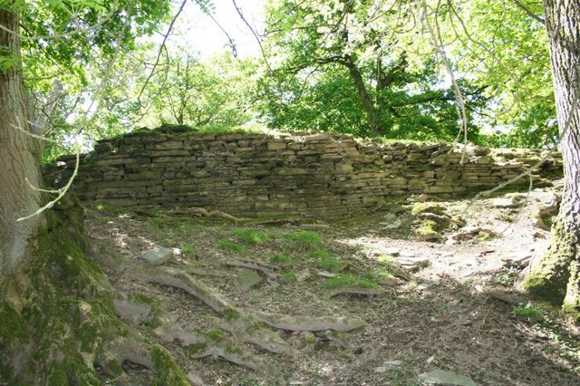 Still standing About the only part of Aberedw castle that can be construed as a wall and in surprisingly good condition.